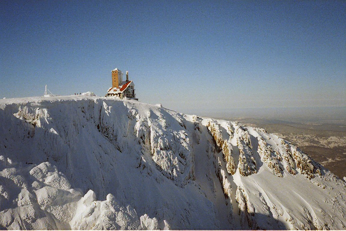 View of Sniezne Kotły, Karkonosze Mountains, Poland